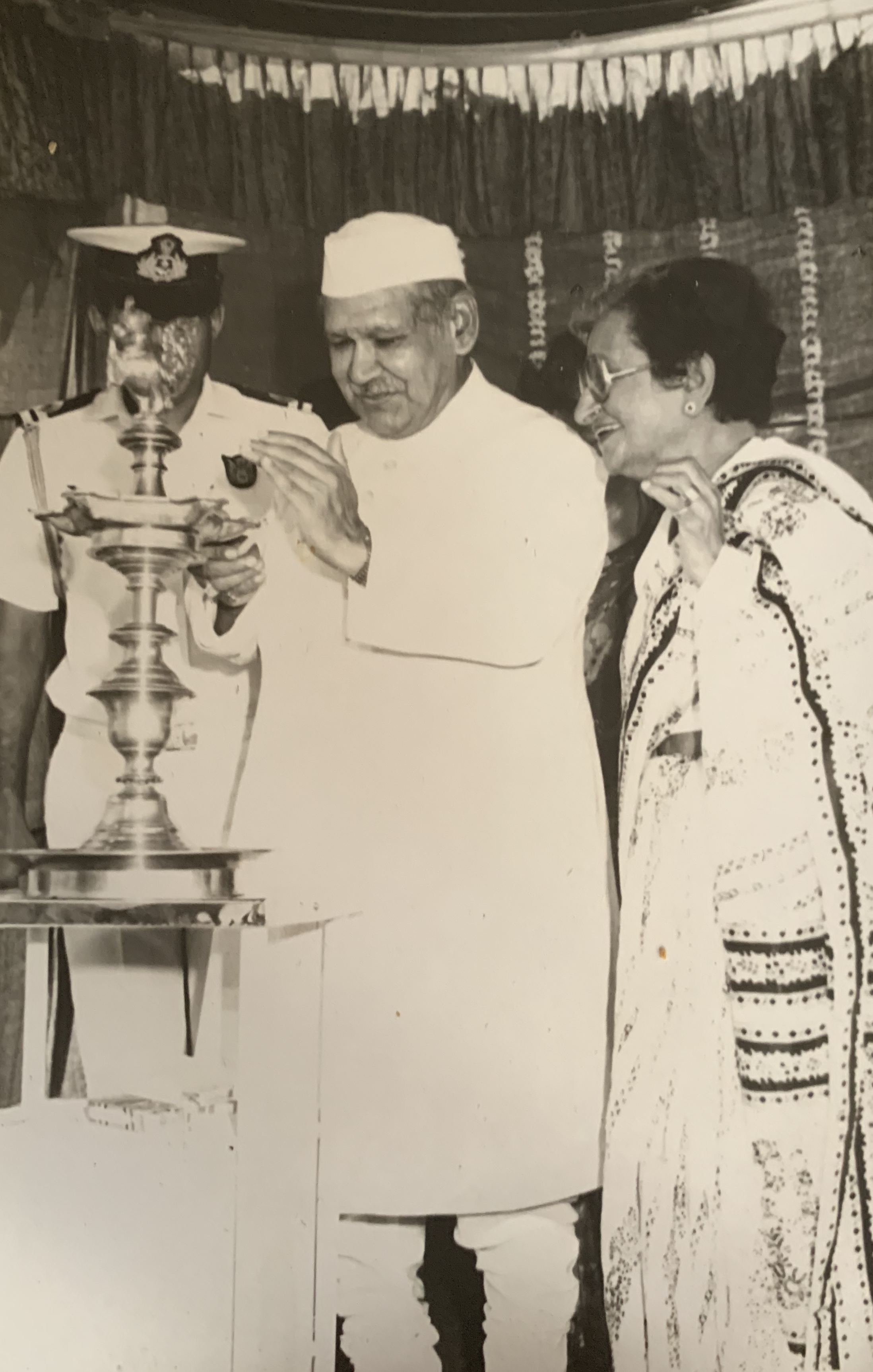 Aloo Chibber Lighting the Innaugural Lamp with former President of India Shankar Dayal Sharma